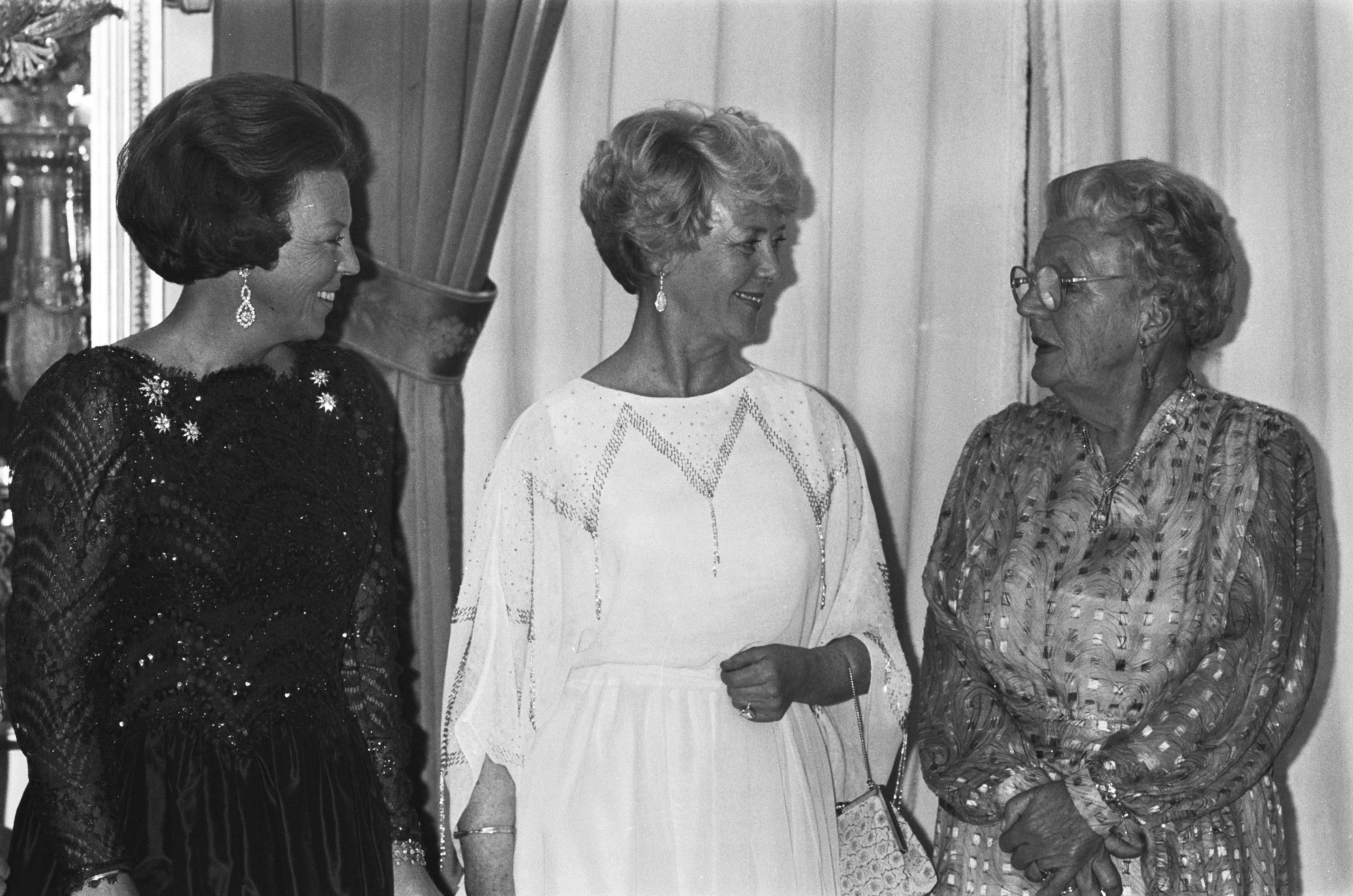 Bezoek president IJsland, mevrouw Vigdis Finnbogadottir op Paleis Noordeinde met Koningin Beatrix en Prinses Juliana